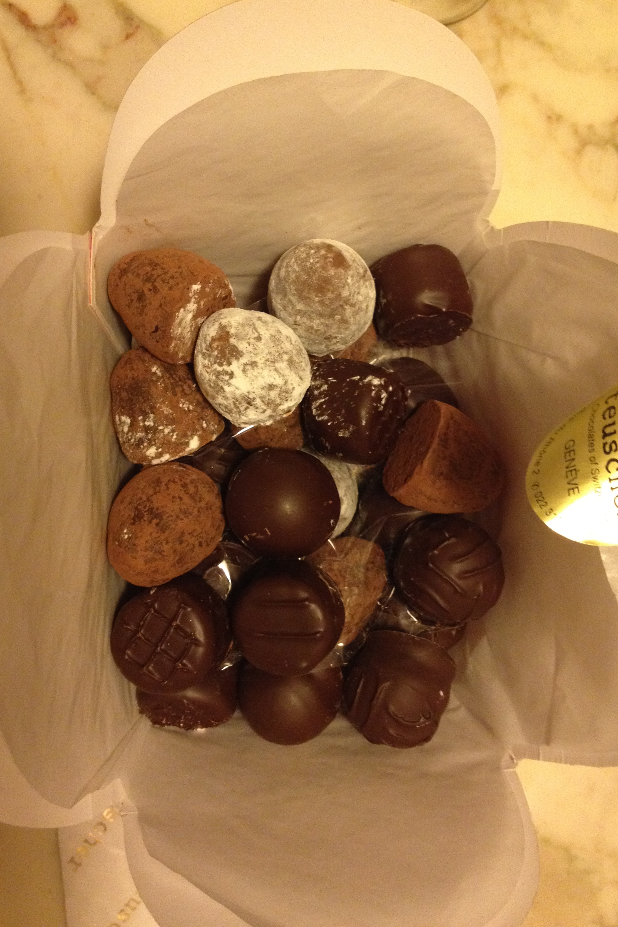 Ballotin of assorted truffles and pralines of Teuscher's Chocolate, Geneva